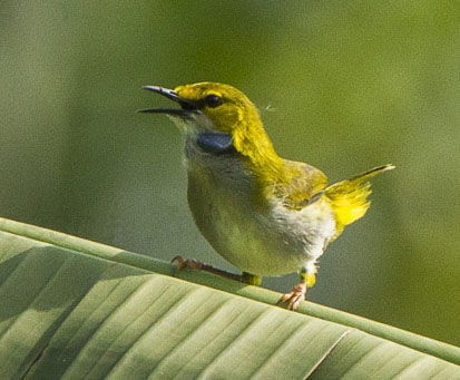 An Yellow-browed Camaroptera (Camaroptera superciliaris) near of the Kakum National Park (Ghana)